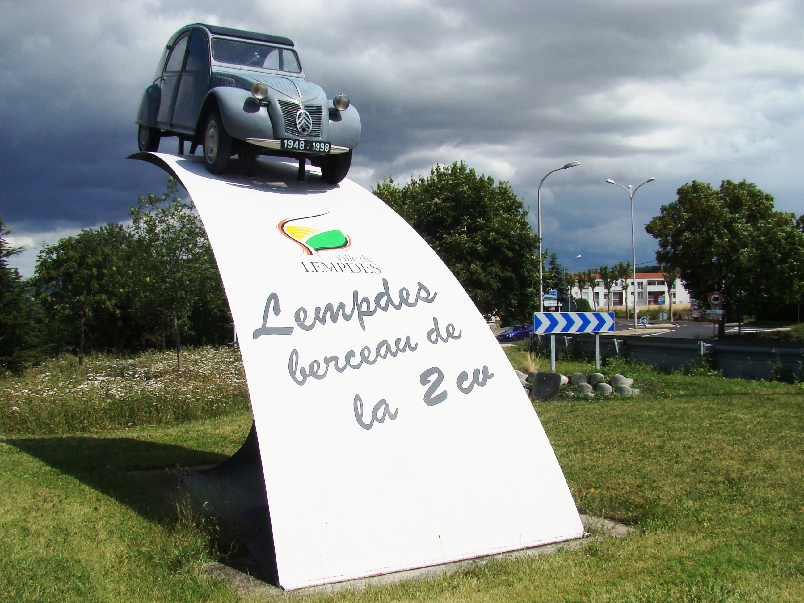 Monument in Lempdes commemorating the 2CV car that was invented in the city